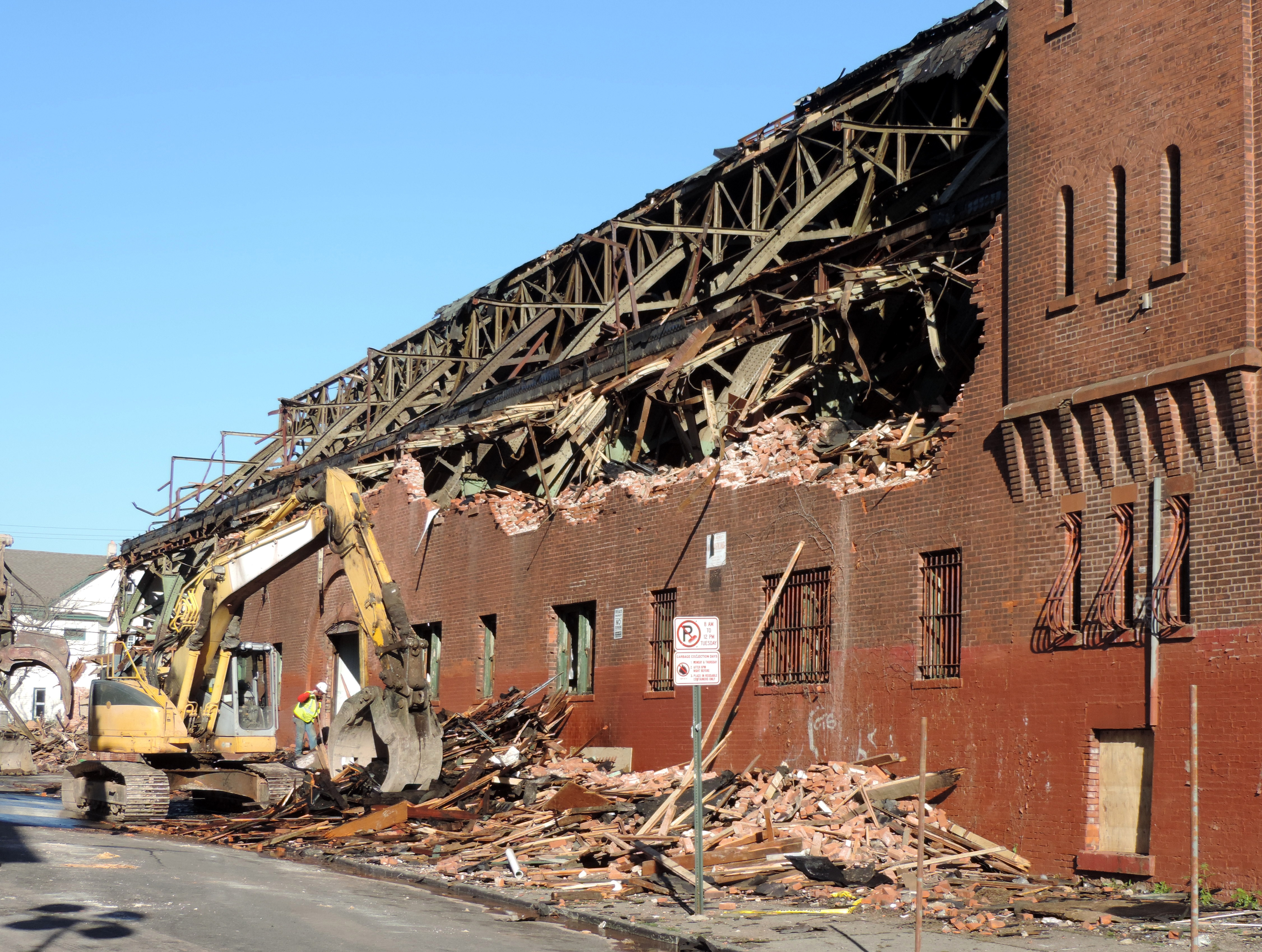 Looking northeast across Rosa Parks at the armory with western wall partly demolished in early afternoon.